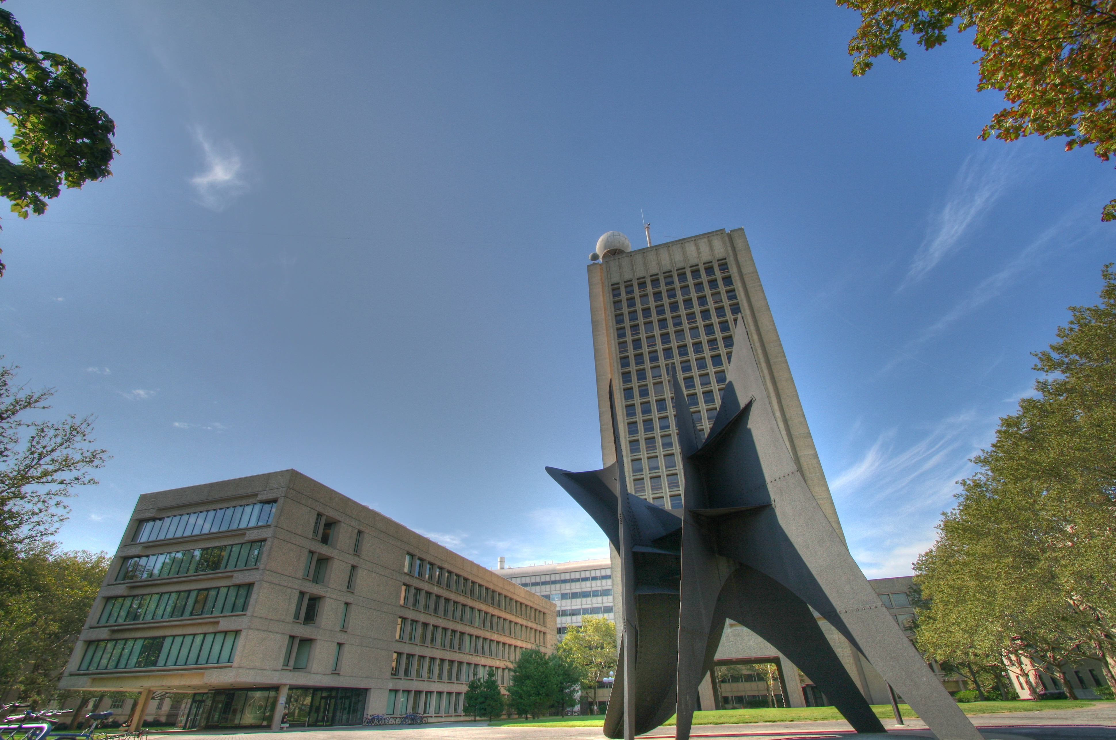 MIT's McDermott Court with Buildings 18 and 54 visible